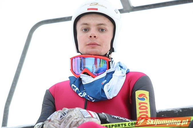 Jan Ziobro during FIS Ski Jumping World Cup in Zakopane, 2013